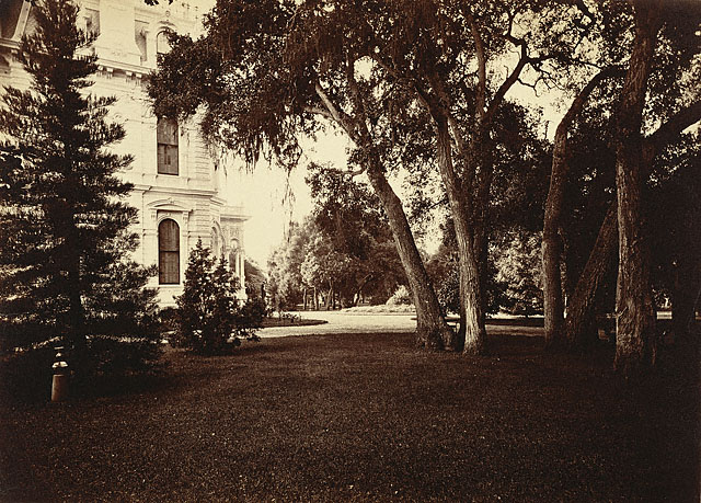 Carleton E. Watkins American, Menlo Park, California, 1874 Albumen print 15 x 21 in. 98.XM.21.5